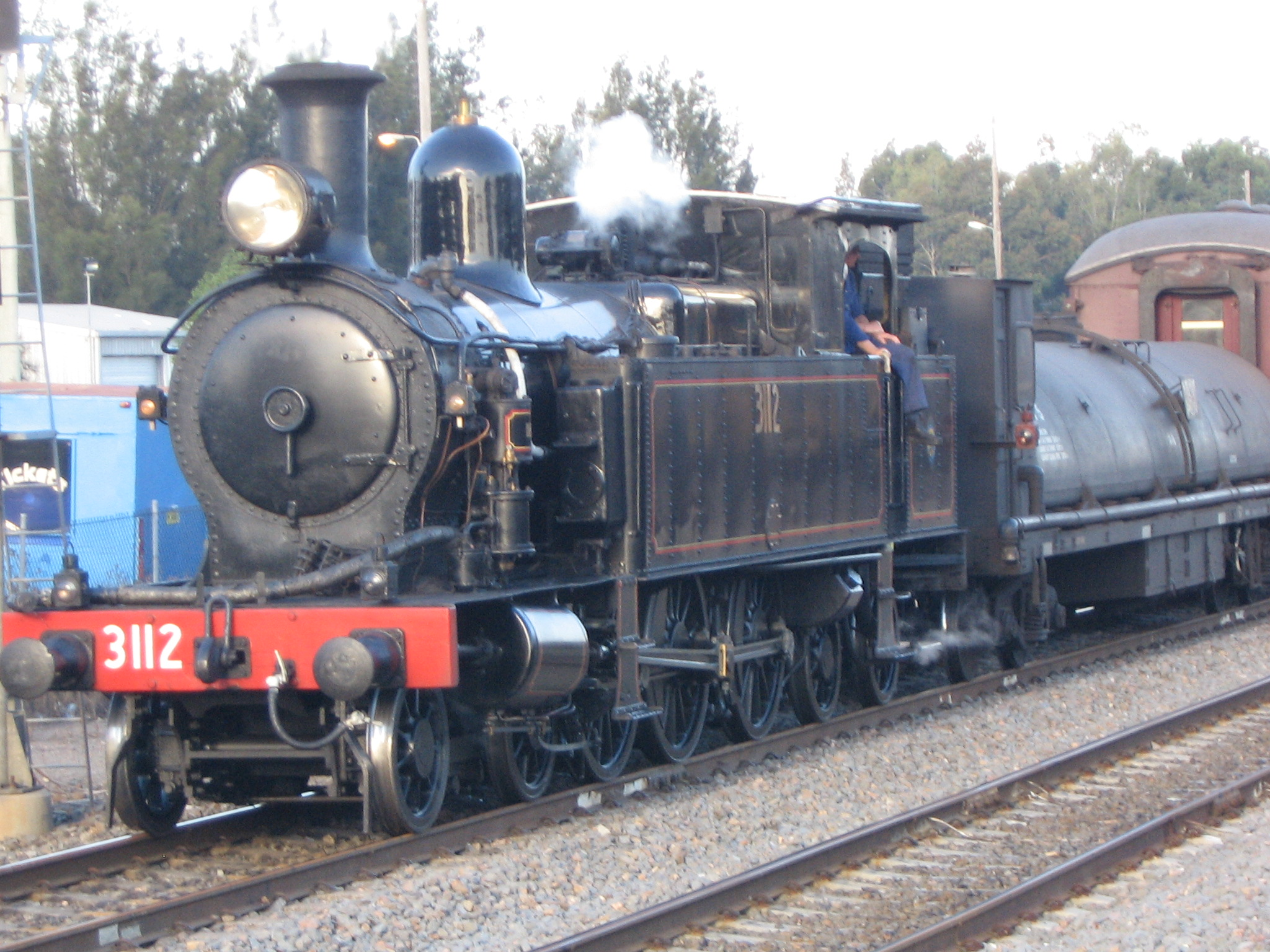 3112 arriving Back to Maitland Station from a run to Newcastle at the Hunter Valley Steamfest 2007